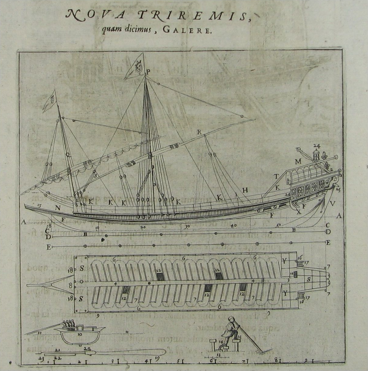 Engraving on chain laid paper from Orbis Maritimi siue Rerum in Mari et Littoribus Gestarum Generalis Historia by Claude Barthelemy Morisot (1592-1661) Original size: 6 1/2" x 6 1/2"